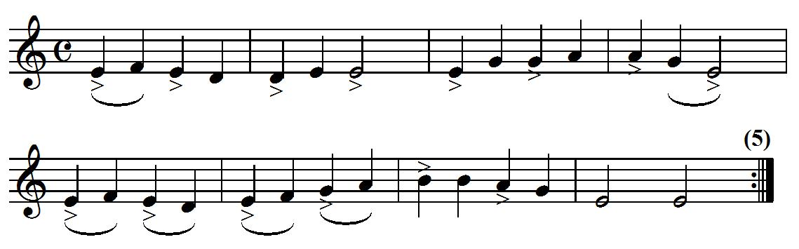 The musical score to „Krummi svaf í klettagjá“, a well known Icelandic poem about a raven and his search for food during the winter.